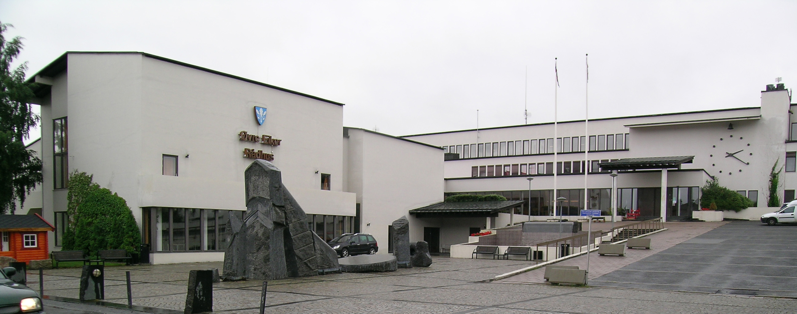 Øvre Eiker council offices, Hokksund.